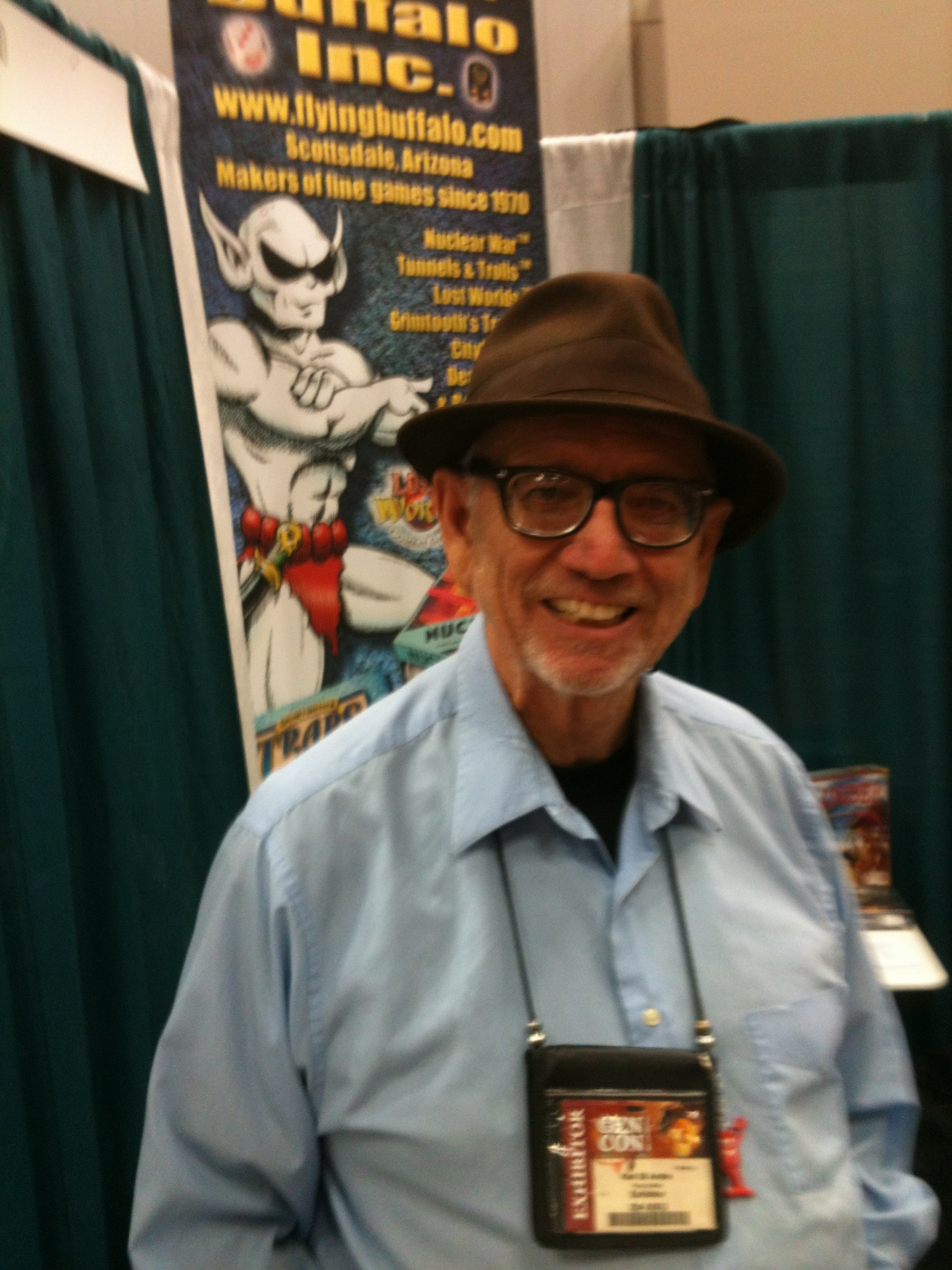 Game designer Ken St. Andre at Gen Con Indy 2014 on August 15, 2014.